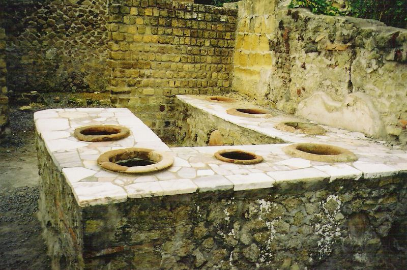 Thermopolium